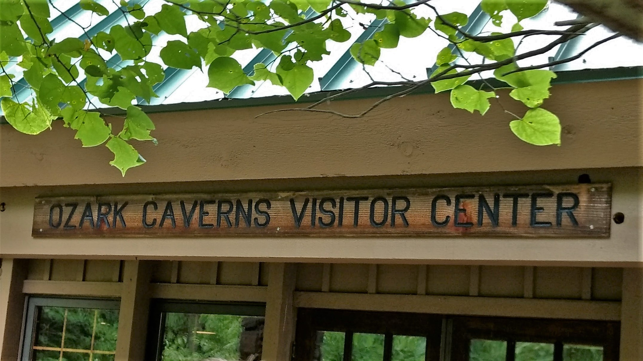 Visitor center at Ozarks Cavern